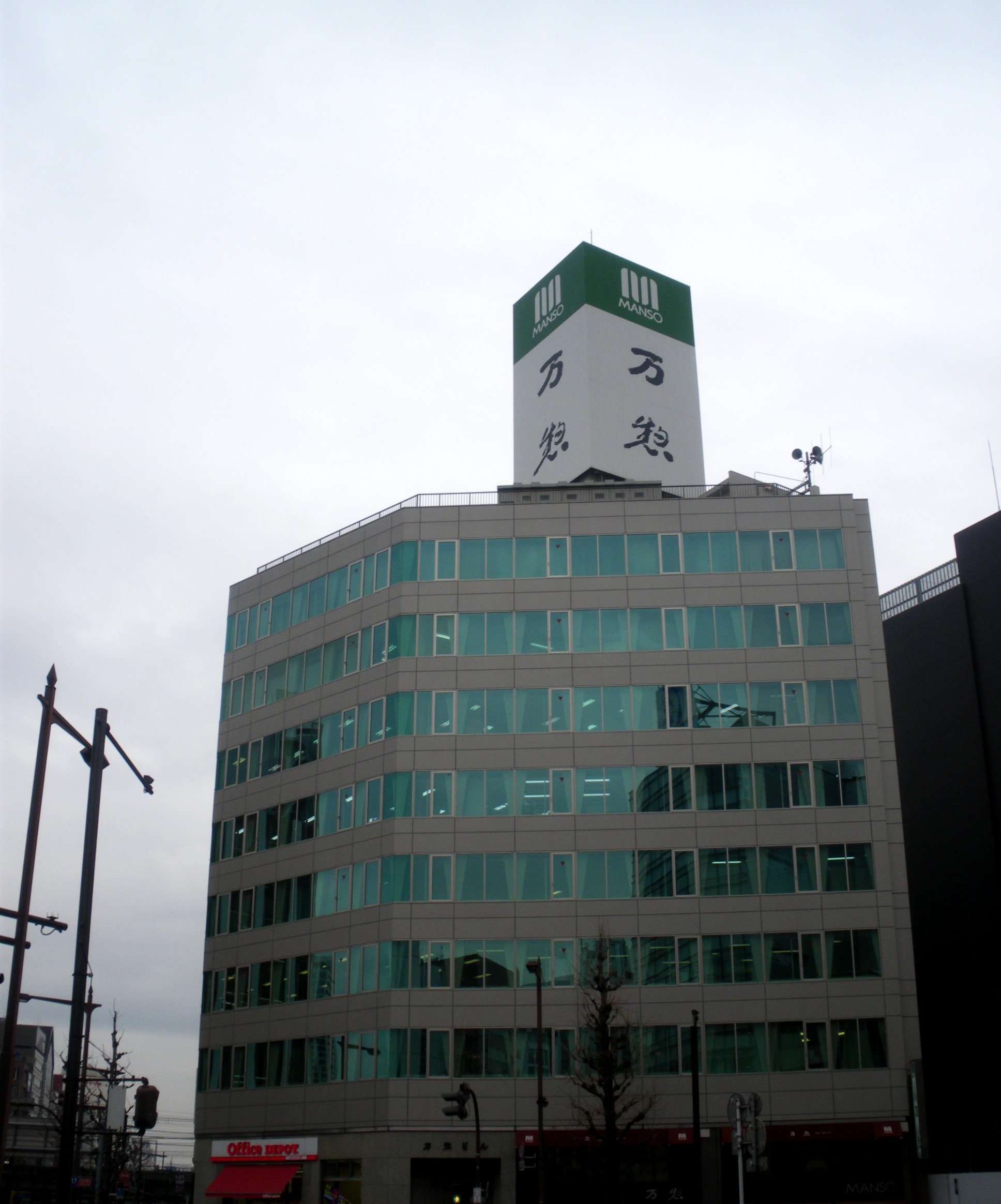 Manso Fruits(Kanadasudacho,Chiyoda,Tokyo)